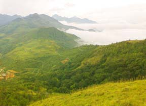 A view from Ponmudi hills.